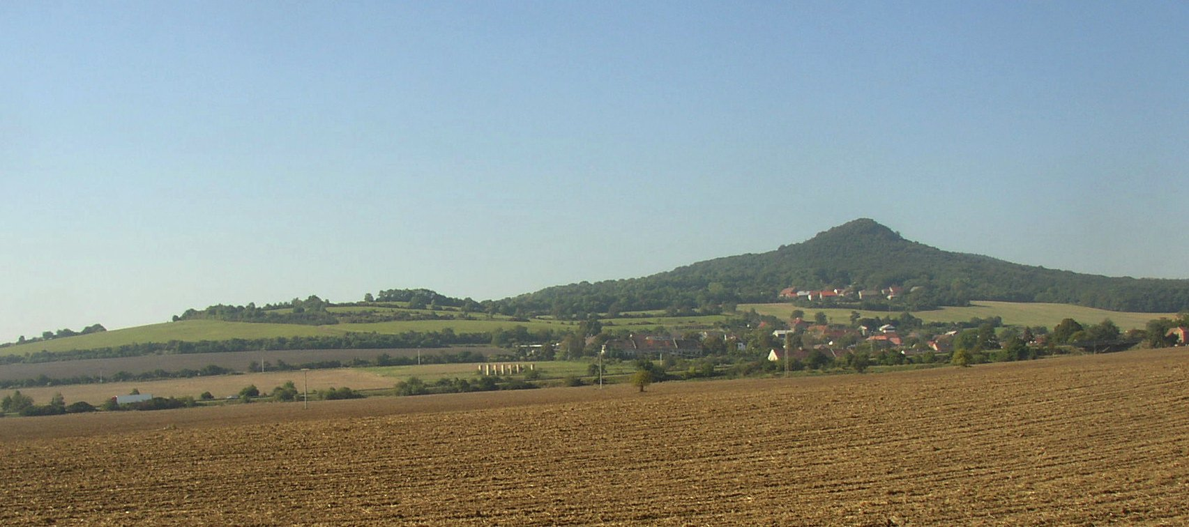 České středhoří, Czech Republic. Ovčín (431 m) as seen from northeast.